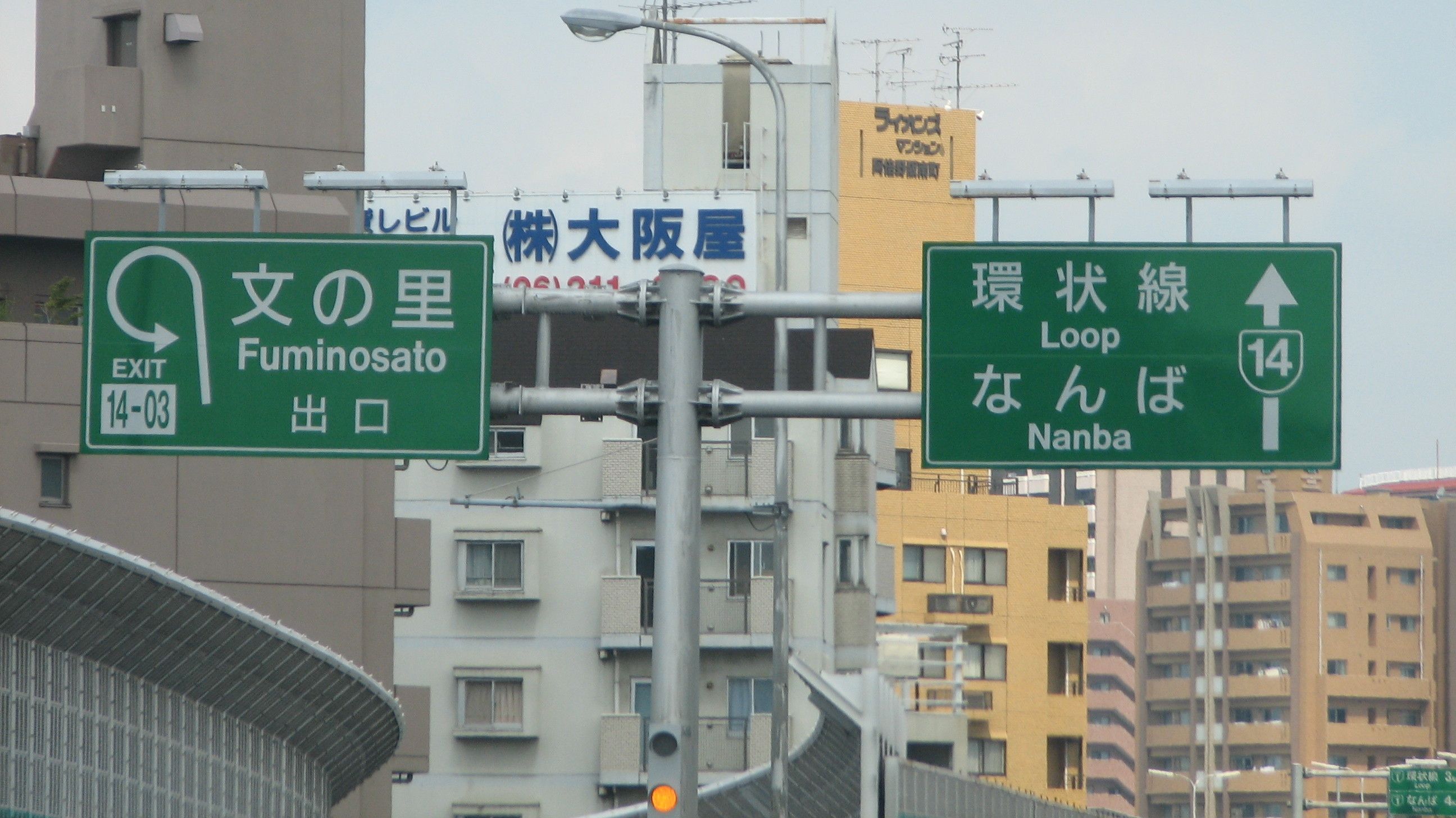 Hanshin Expressway Fuminosato IC